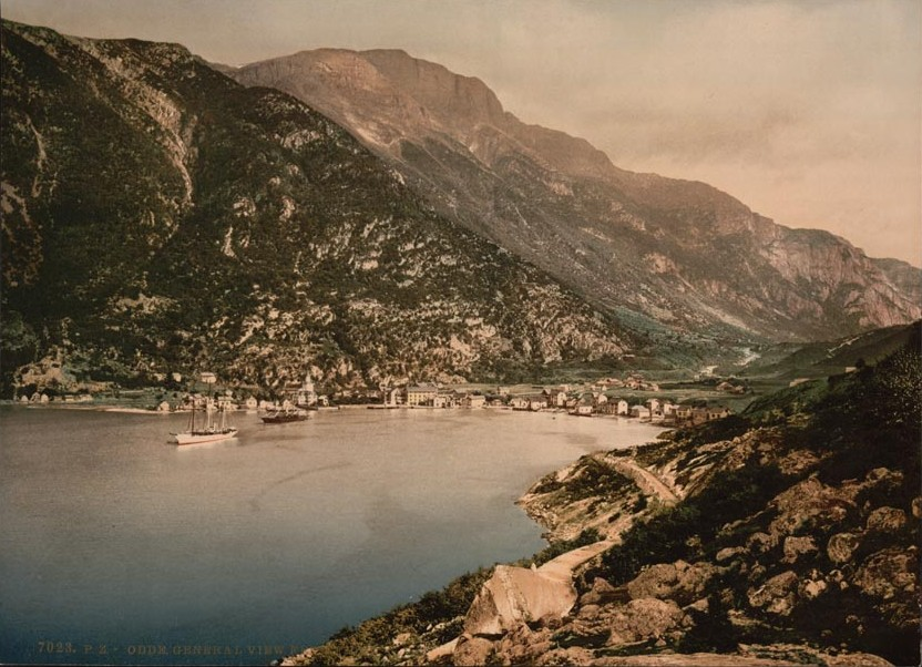 Odda in Hordaland county, Norway, photochrom print from between ca. 1890 and ca. 1900.